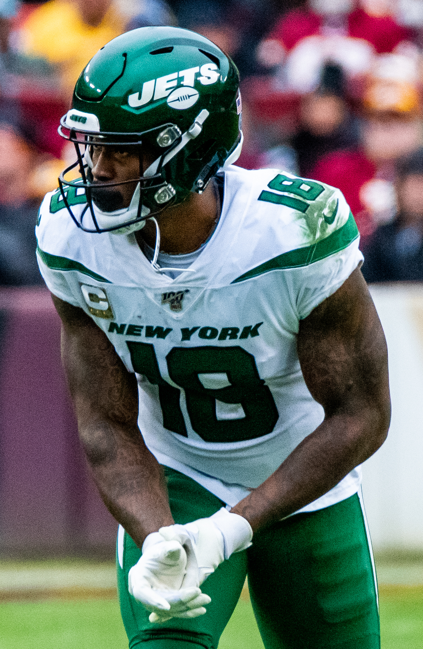 In 2019